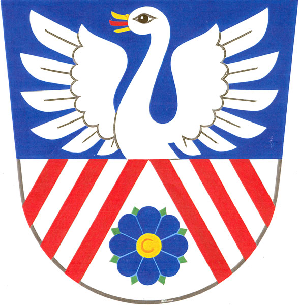 Municipal coat of arms of Nemotice village, Vyškov District, Czech Republic.